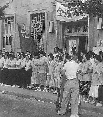 Omi-Kenshi Labor dispute